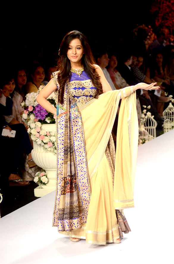 Preetika Rao walks for the BETI show at IIJW 2015